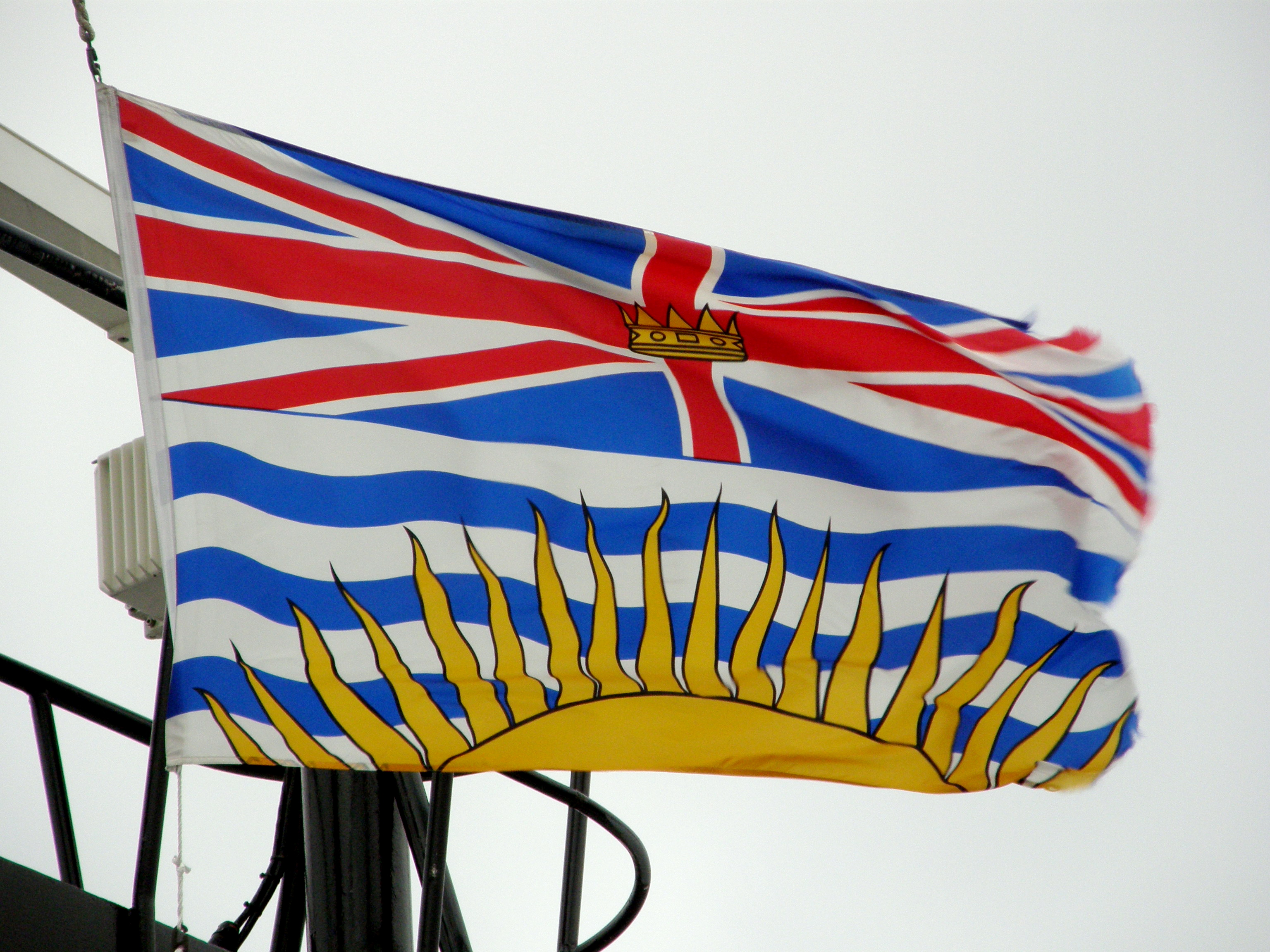 Flag of British Columbia, flown on board the BC Ferries ship M/V Queen of Oak Bay